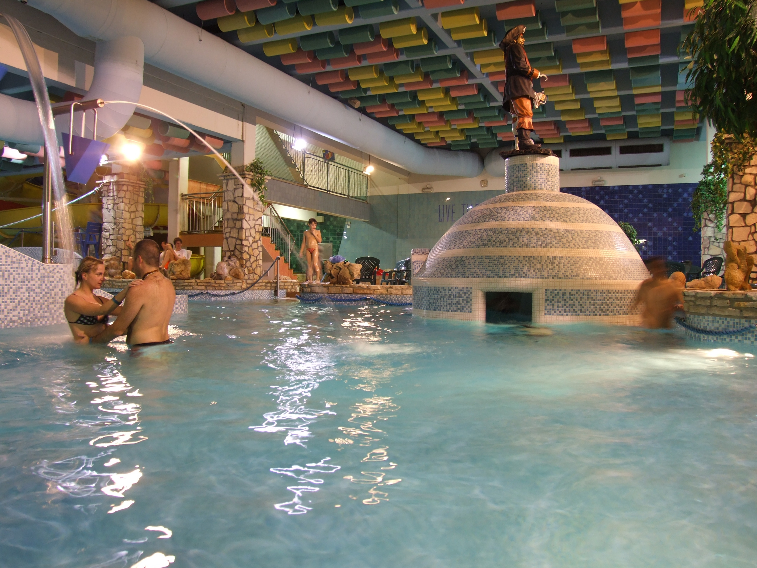 Auqapark Liberec, Czech Republic